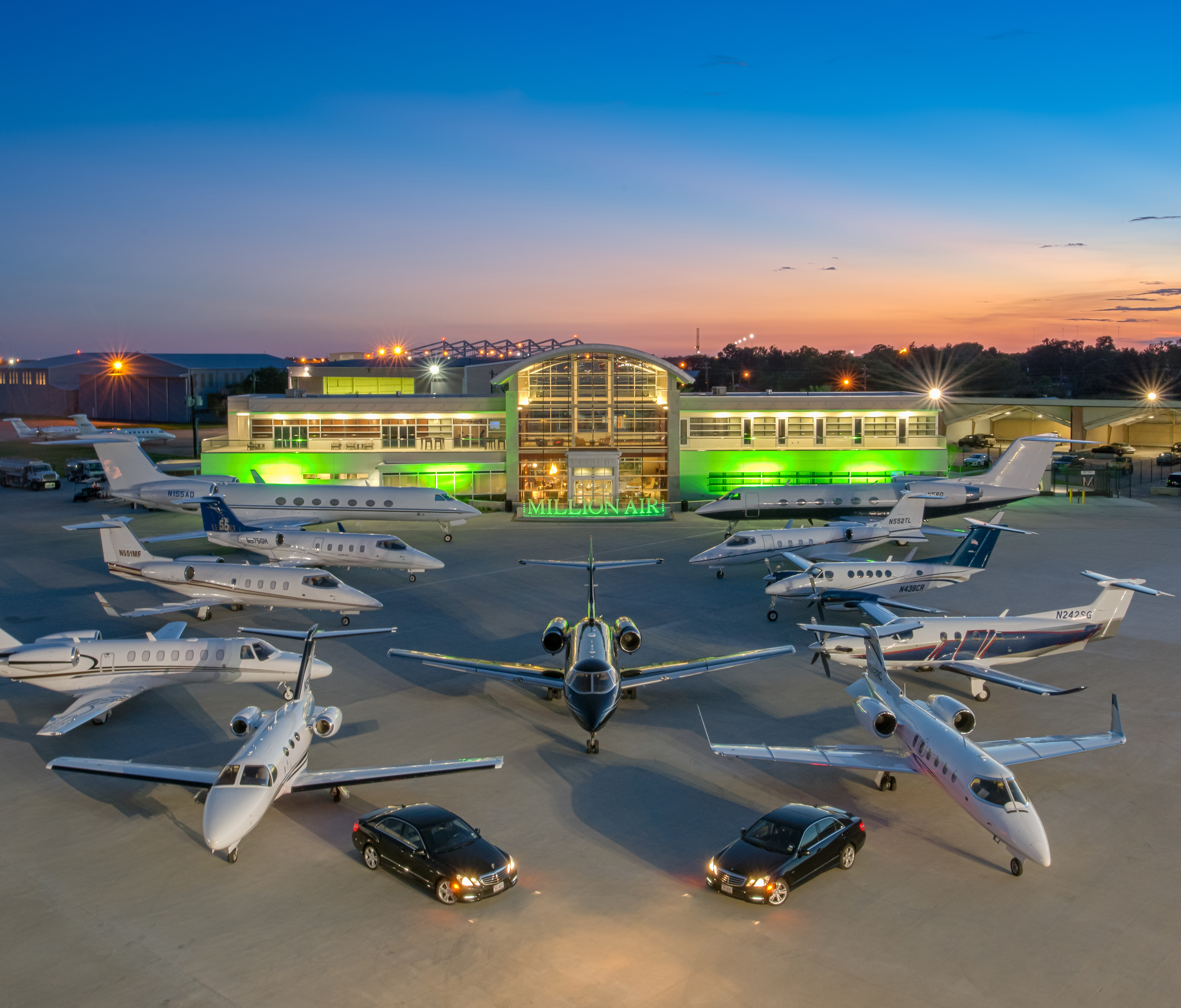 at Houston Hobby